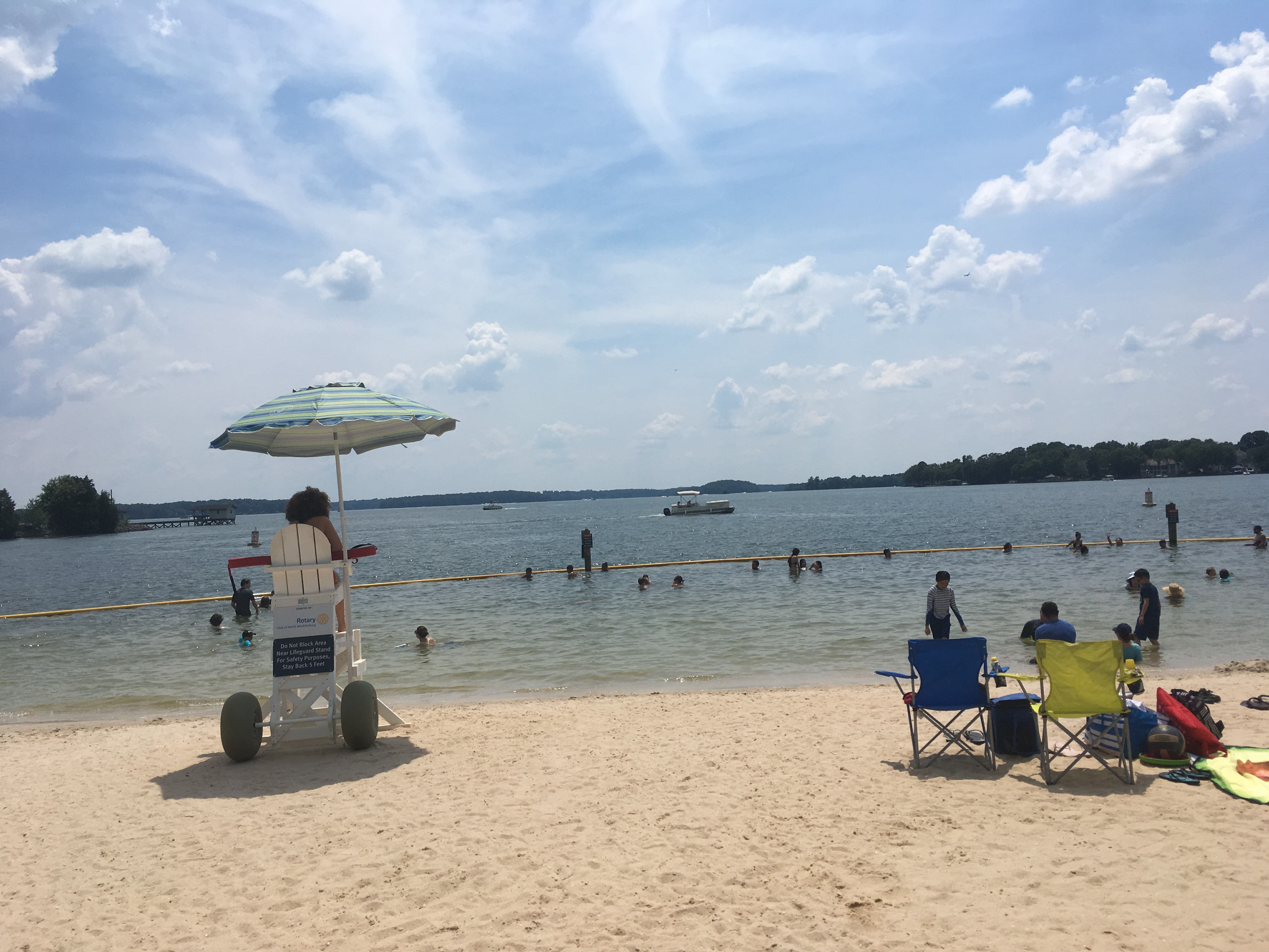 Beach on Lake Norman in Ramsey Creek Park in Cornelius, North Carolina